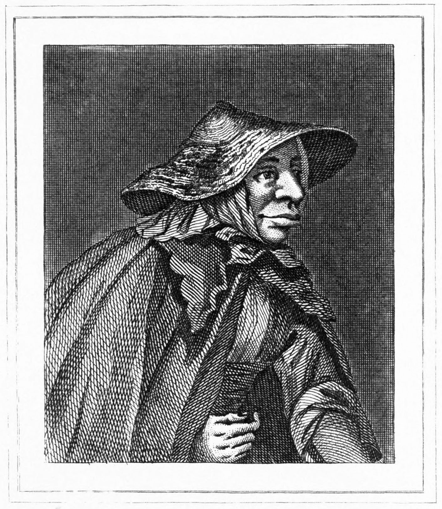 Portrait of Mary Squires, probably 19th century